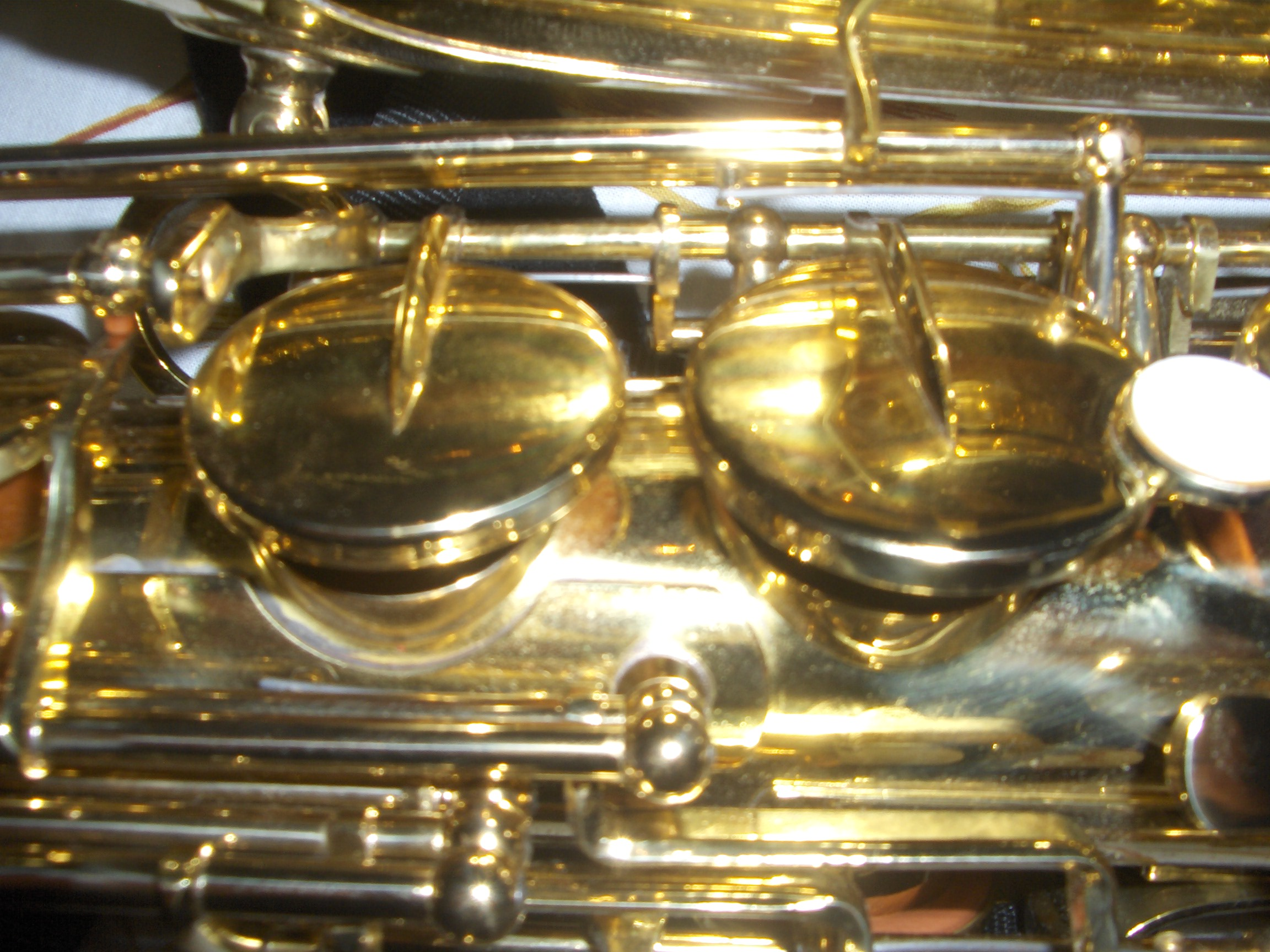 Saxophone keys (tenor saxophone)